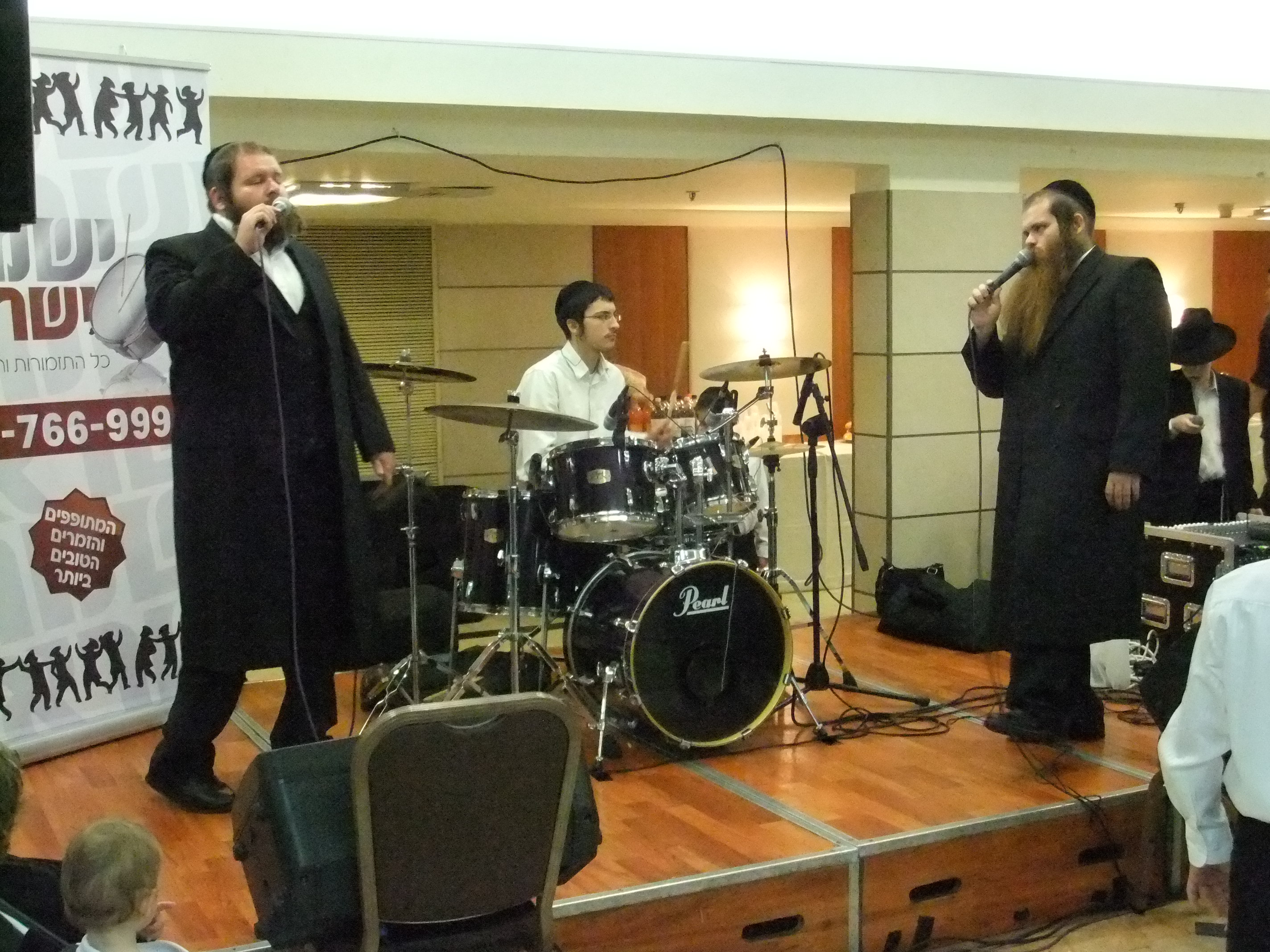 A "band" at a wedding in Jerusalem. Only drums are used according to "Minhag Yerushalayim" and there are two singers.